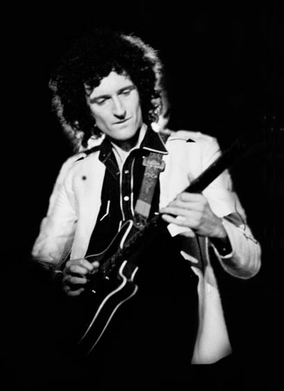 Brian May performing with Queen, on his "red special". 22 November 1979 in Dublin, Ireland Photographrt: Eddie Mallin